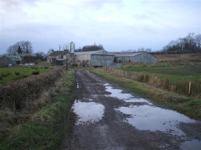 Drumragh Townland. Looking west along a puddled lane